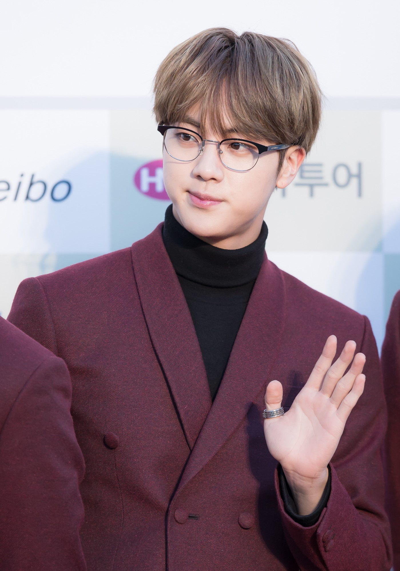 Jin (Kim Seokjin) at the 2016 Gaon Chart K-Pop Awards Red Carpet